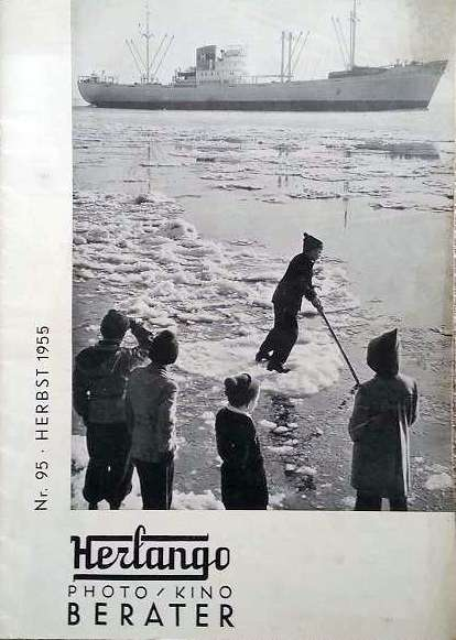 Katalog